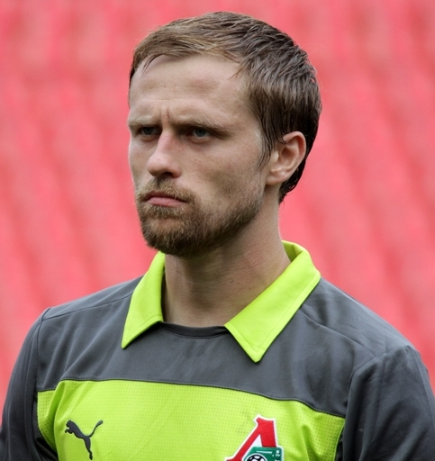 Dario Kresic